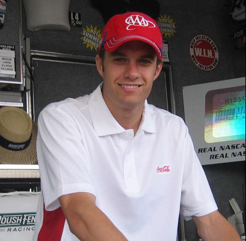 David Ragan at the 2008 Bank of America 500.